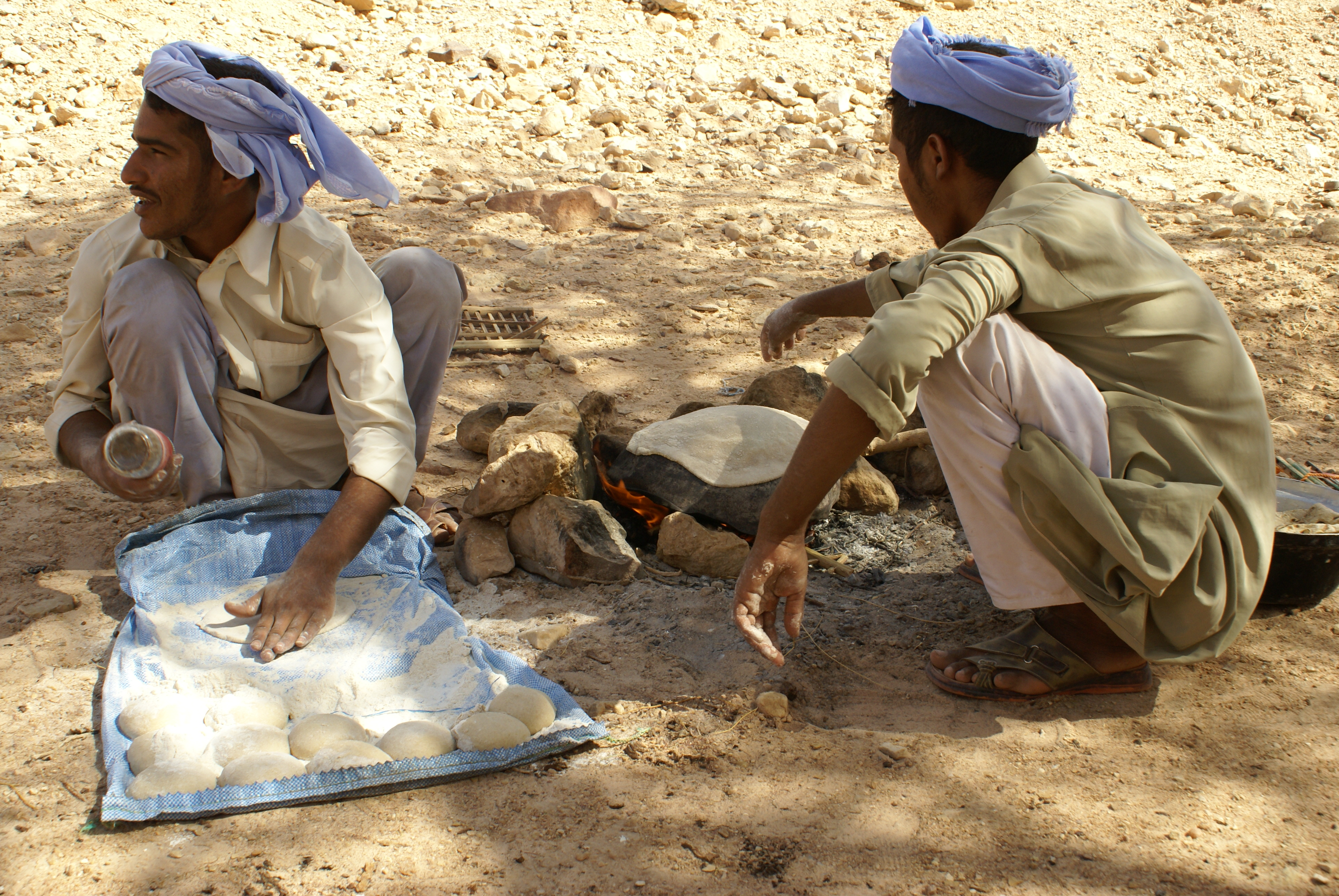 Two young Bedouins preparing and baking bread during a stop of a hiking group on the Sinai Peninsula, Egypt. The group carried supplies of flour and water with them, out of which the man pictured left made a dough and shaped equally-sized round balls. After dusting it in flour and flattening the balls, the large and round dough was put on the metal hemisphere visible between the two men over an open fire to bake the bread in approximately four minutes.